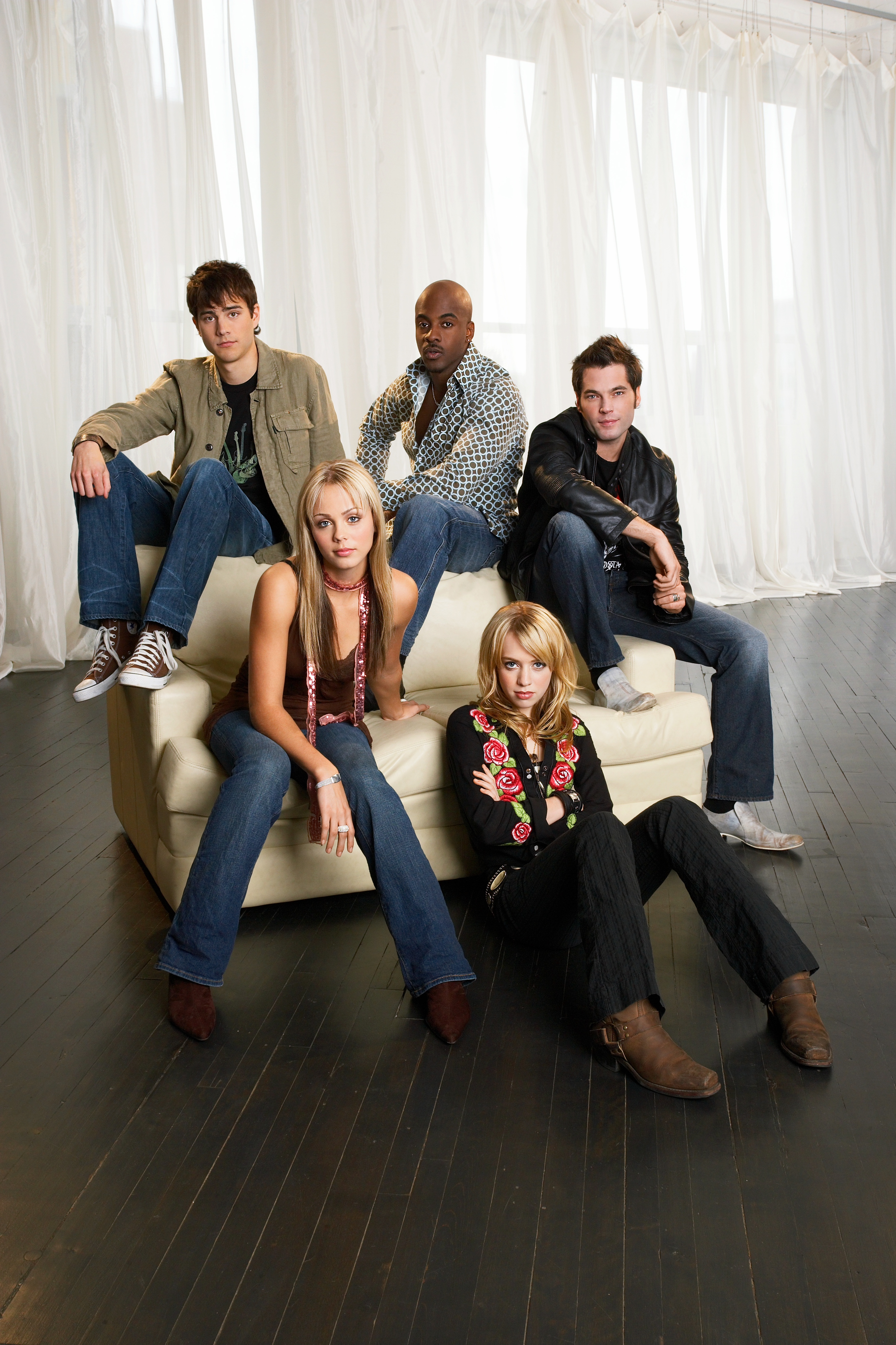 Alexz Johnson and Other Cast Members of Instant Star - Kristopher Turner, Wes Williams, Tim Rozon and Laura Vandervoort.